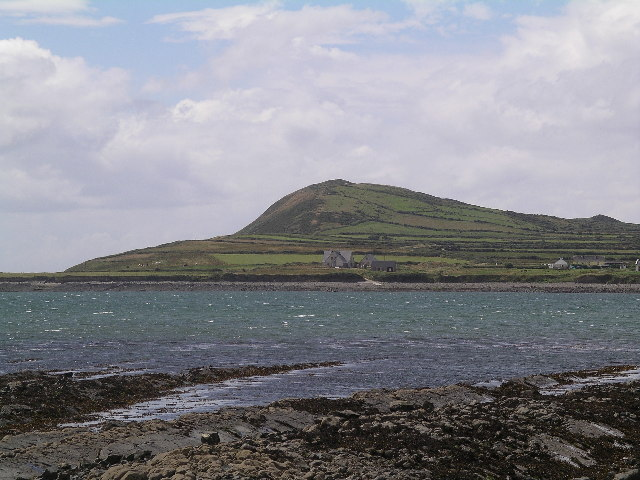 Kilbaha Bay. Looking West...